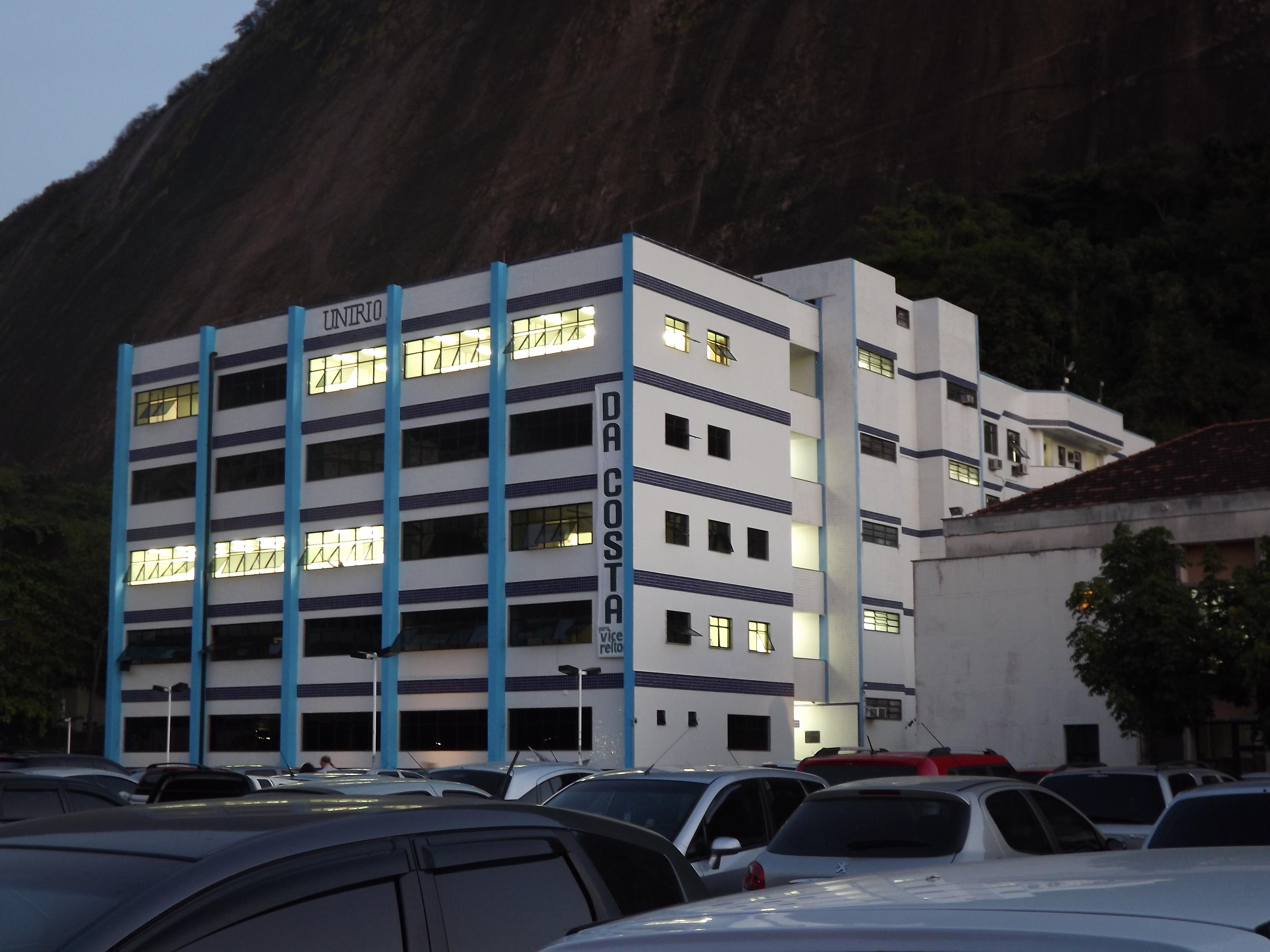 Biology_science institute - Unirio